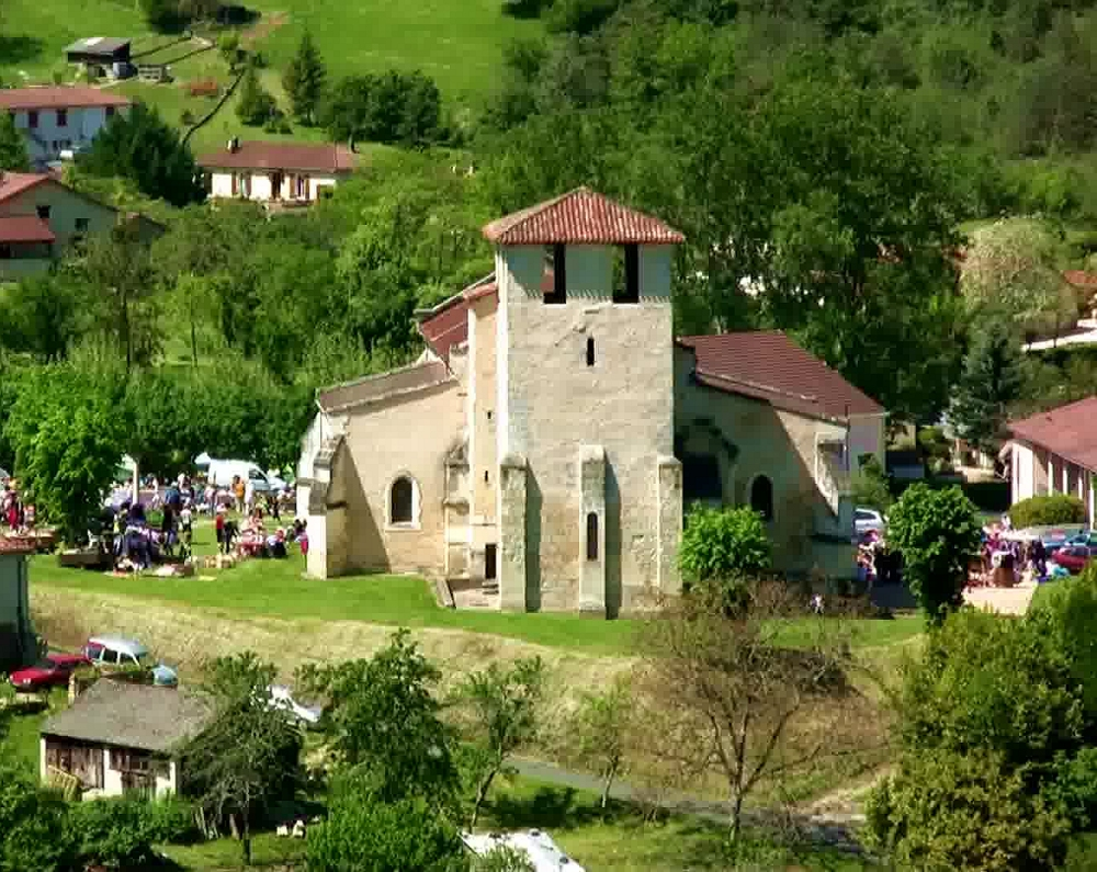 A view of the village of Coursac with the little church.